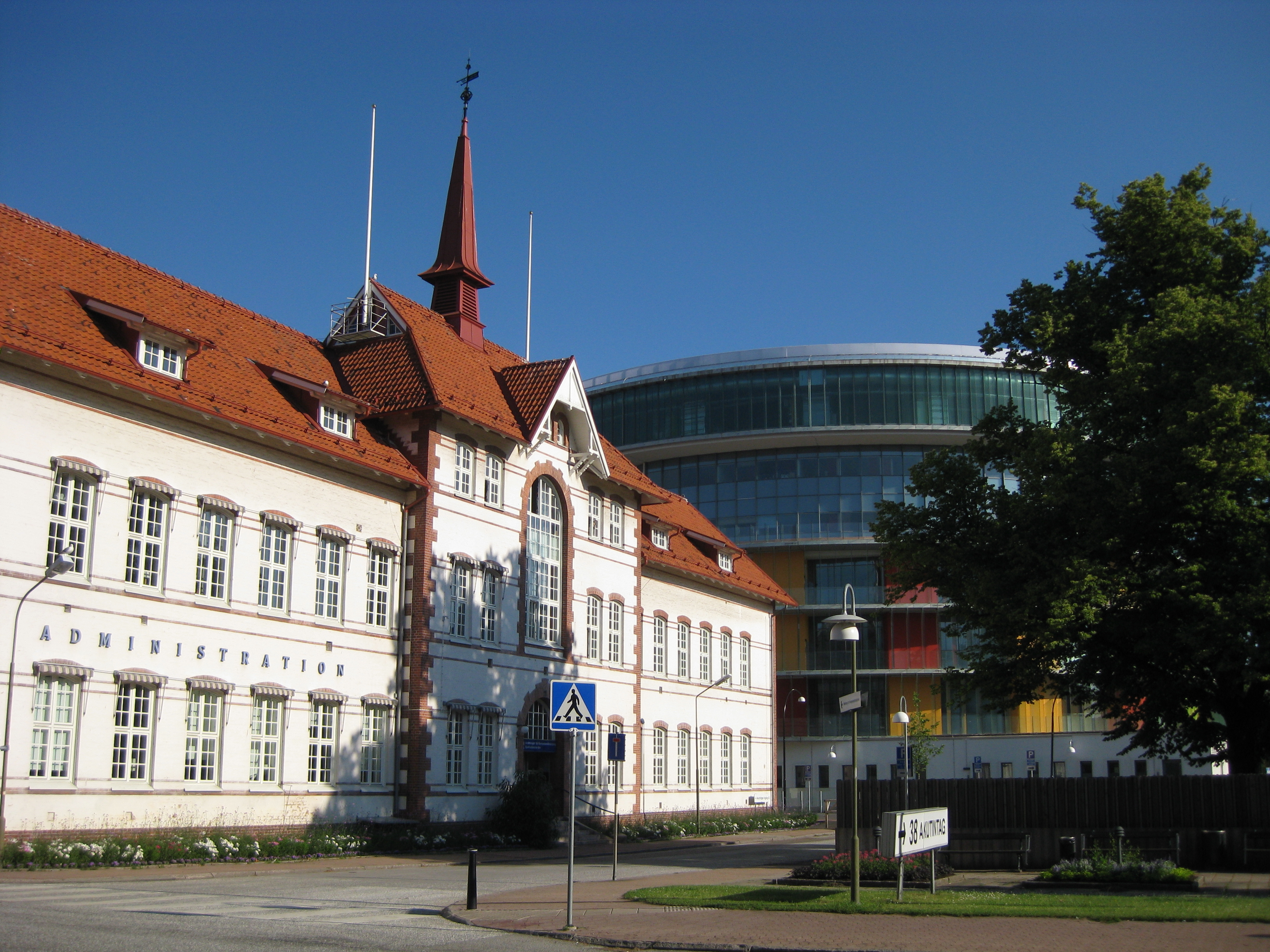 Administrative building and emergency center at the hostpital in Malmö, Sweden.